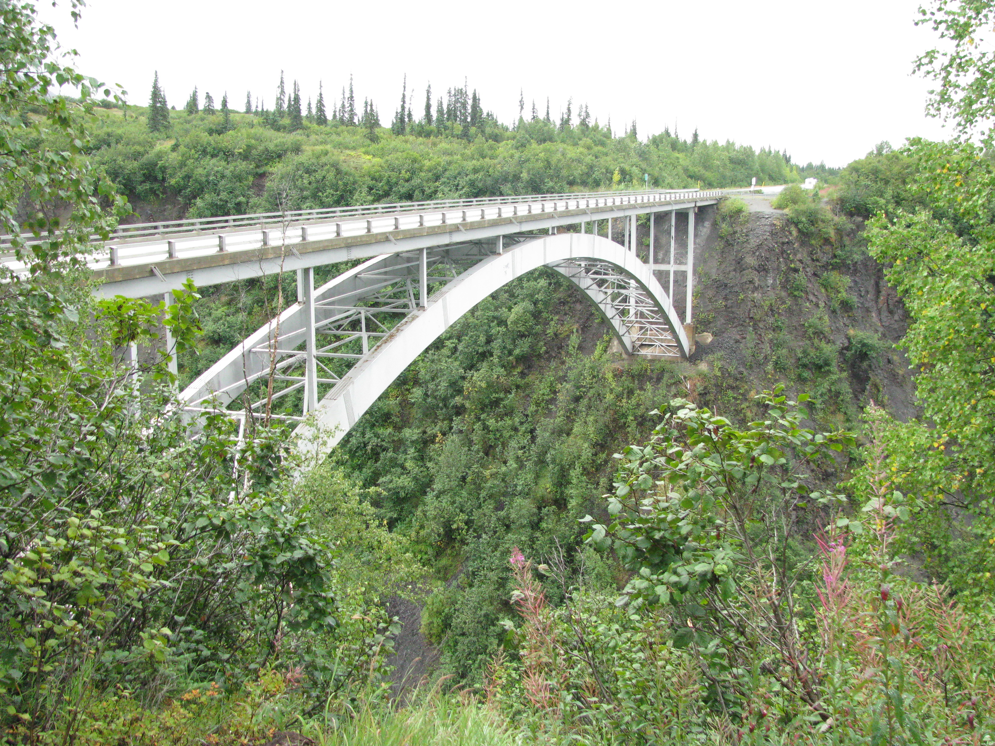 Road bridge over Hurricane Gulch along the Parks Highway, Alaska, USA. Photographed on 19 August 2009. Joint ©© Arthur D. Chapman and Audrey Bendus.